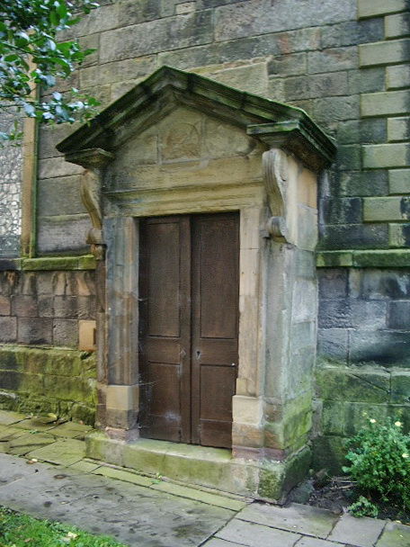 St Chad's Church, Poulton-le-Fylde. Doorway in the south wall of the church, leading to the Fleetwood-Hesketh family vault.